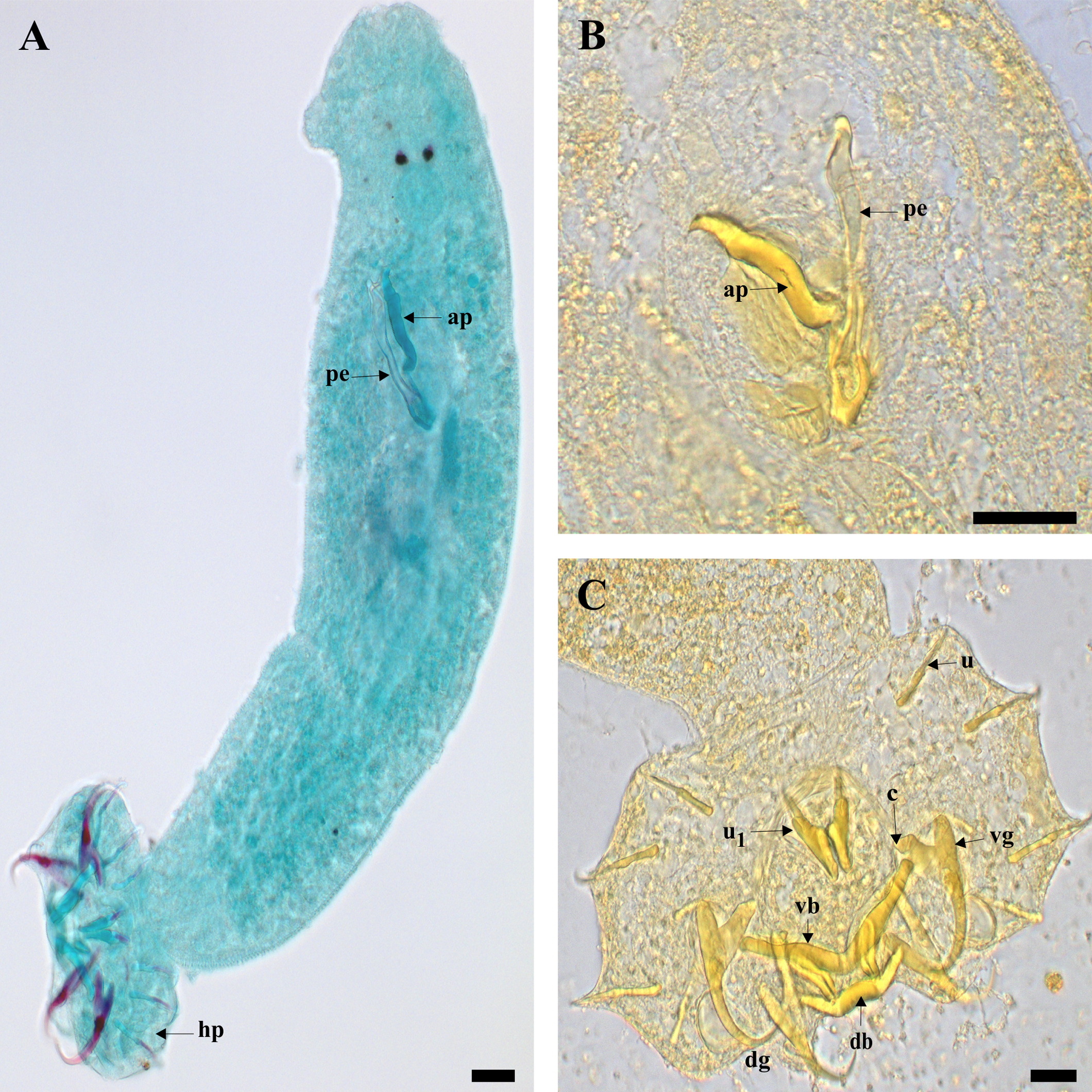 Figure 2 of paper Light micrographs: A Whole mount of Cichlidogyrus philander stained with Horen's trichrome; B GAP-stained MCO; C GAP-stained haptor. Abbreviations: ap accessory piece; c cap; db dorsal bar; dg dorsal gripus; hp haptors; pe penis; u uncinulus; u11st uncinulus; vb ventral bar; vg ventral gripus. Scale-bars: A-B, 20 μm; C, 10 μm.